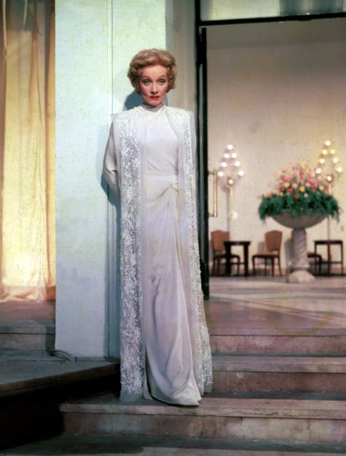 Marlene Dietrich photographed on-set during the production of The Montecarlo Story in at Titanus-Studios in Rome (1956). Dietrich's costume is by Jean Louis.